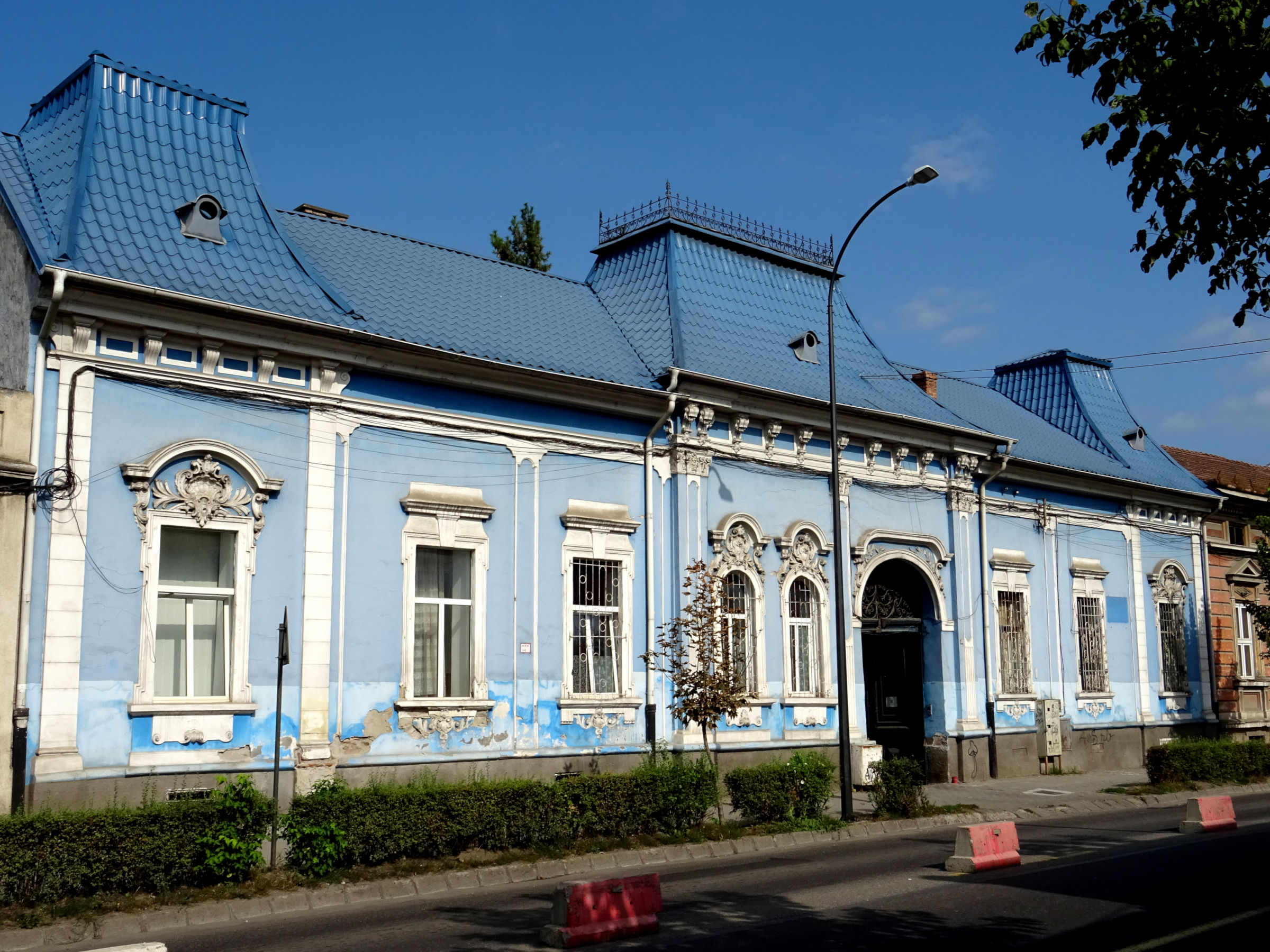 Revoluției street, house number 45 (Makariás-Walles house)